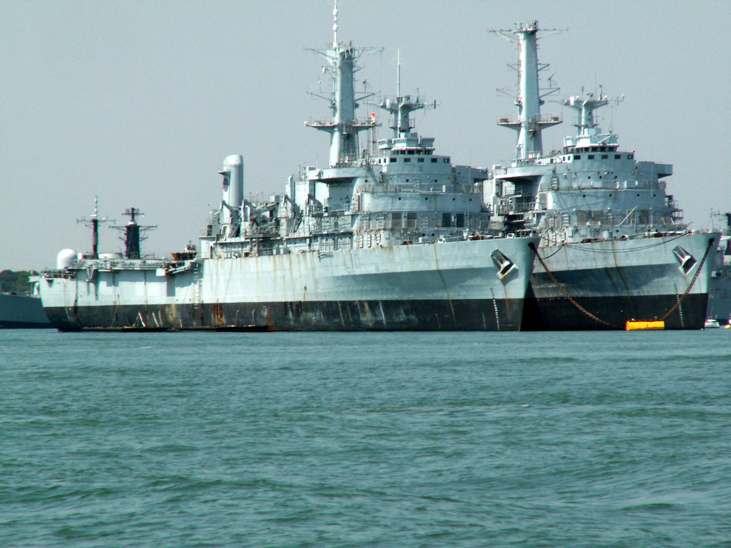 Fearless & Intrepid, Portsmouth, UK.